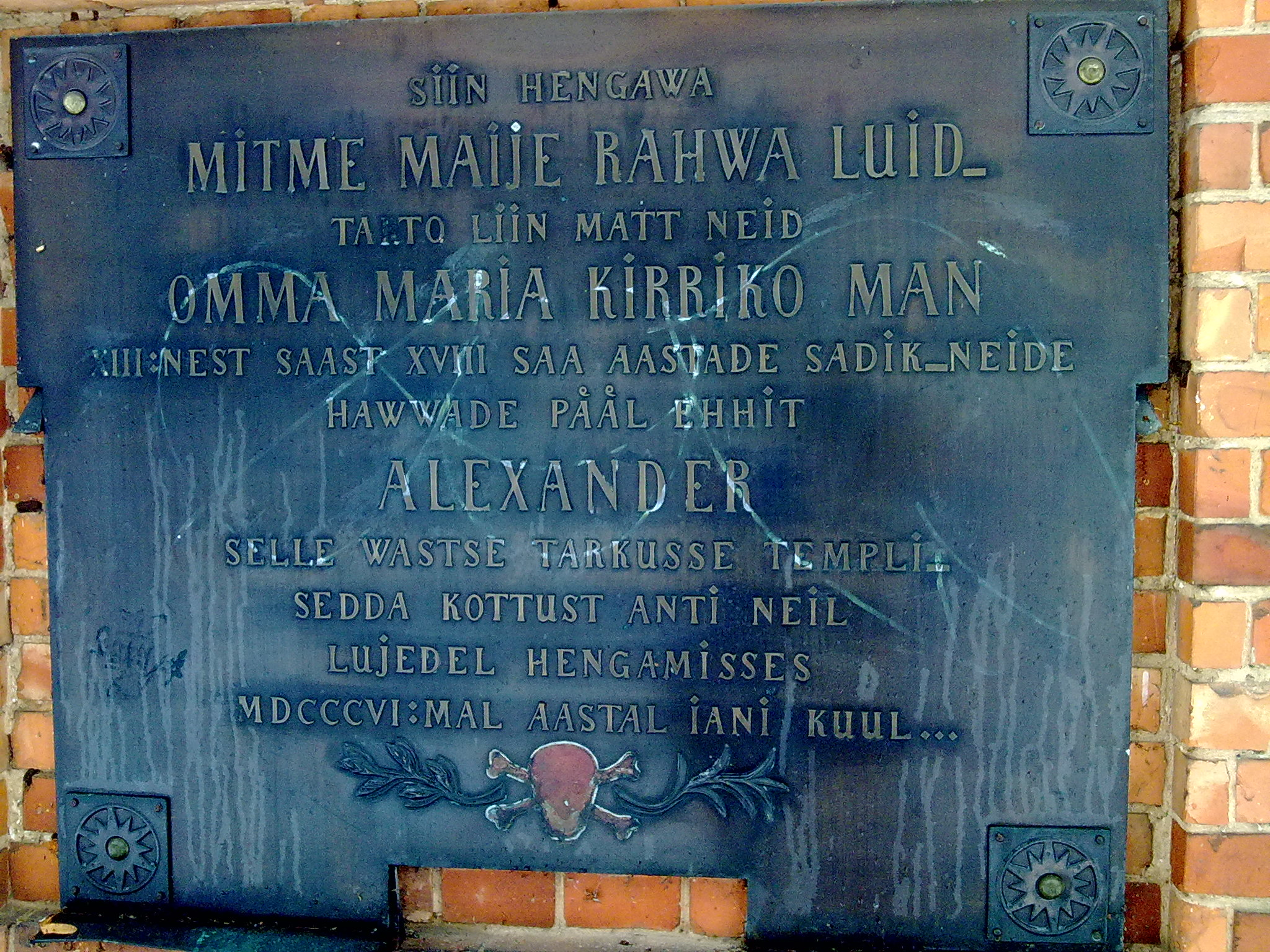 Monument of Nations' plaque.